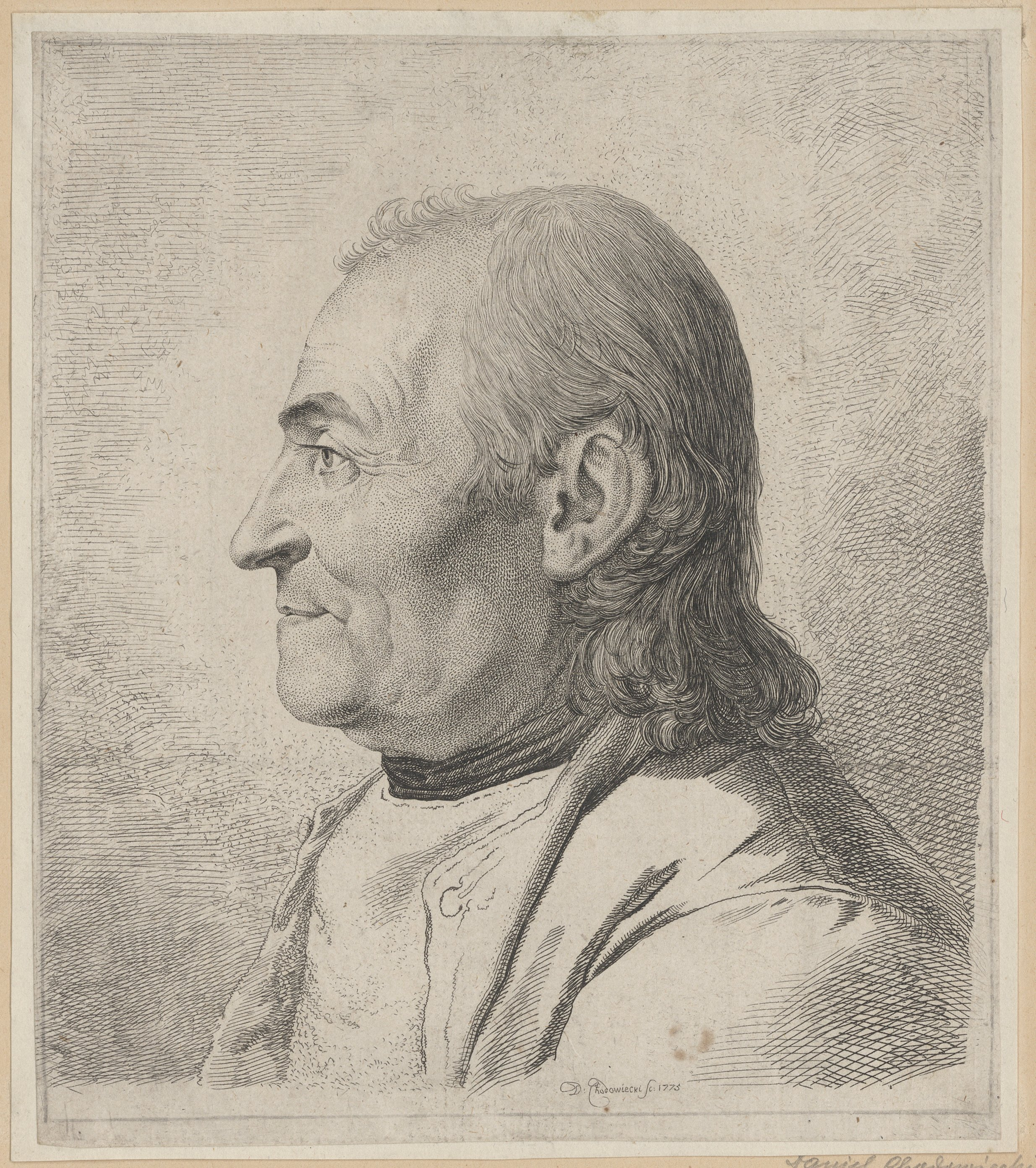 Kleinjogg, Jakob Gujer of Wermatschwil